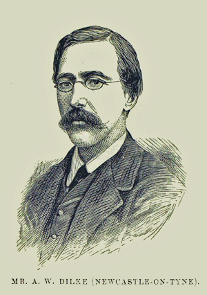 Engraving of Ashton Wentworth Dilke